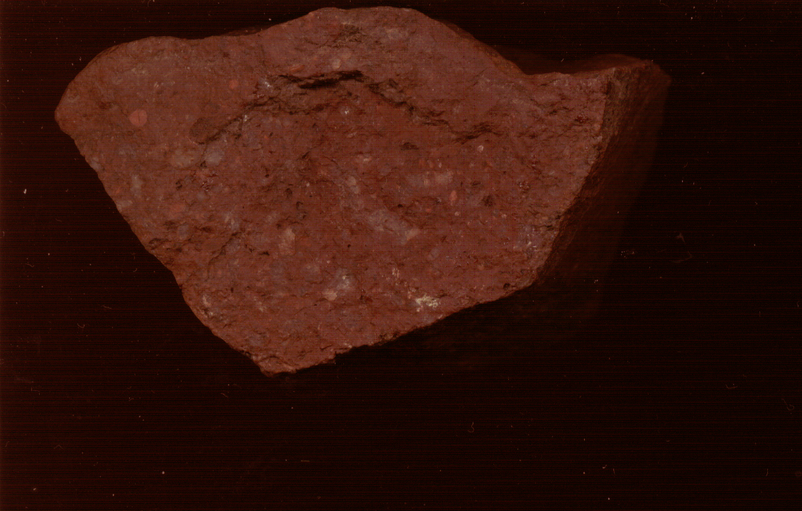 Ignimbrite from Laidlaw Volcanics, Red Rocks Gorge, ACT, Australia. The rock is of Silurian age.